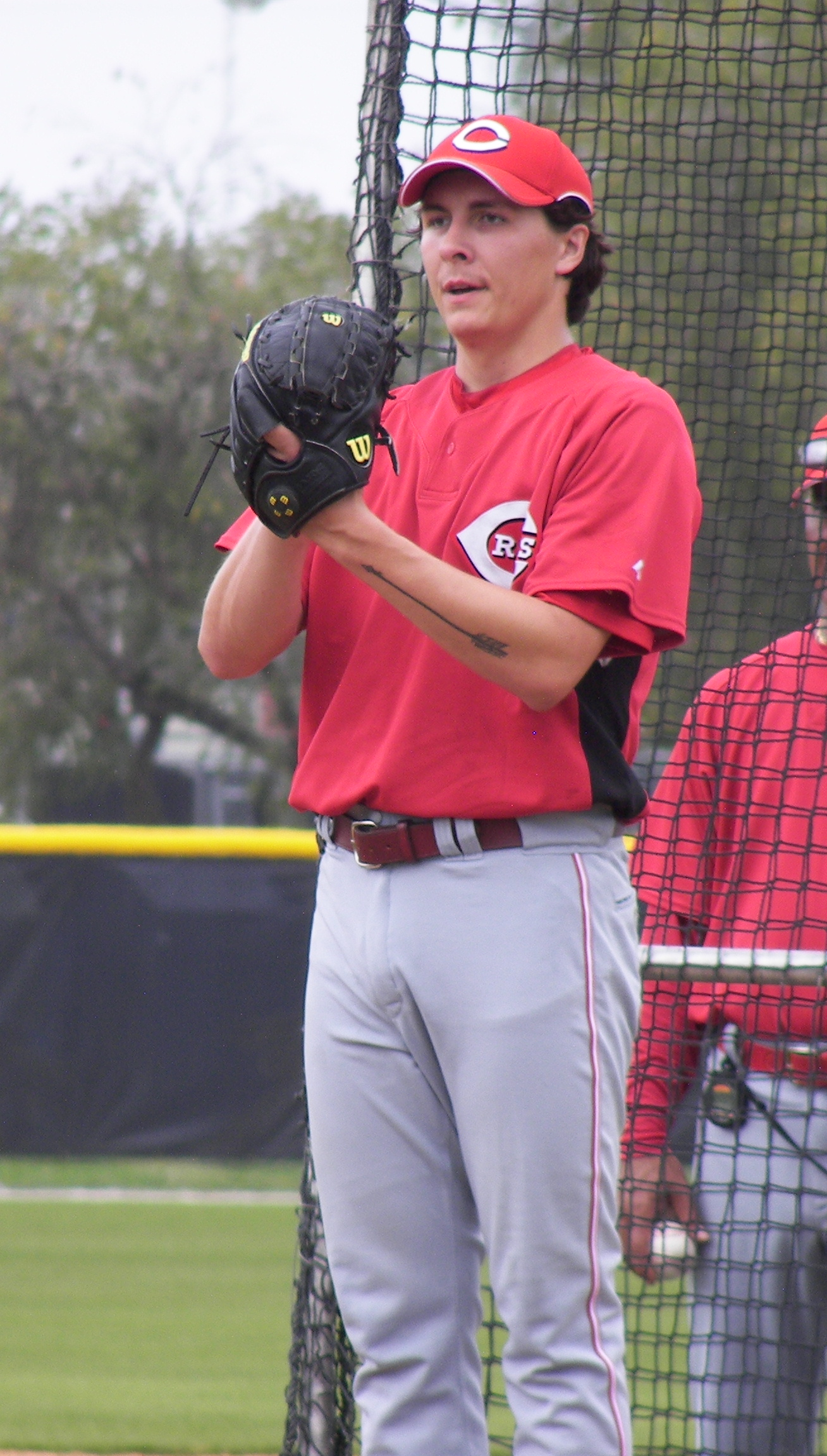 Cincinnati Reds pitcher Homer Bailey during a Spring Training workout outside Ed Smith Stadium in Sarasota, Florida.